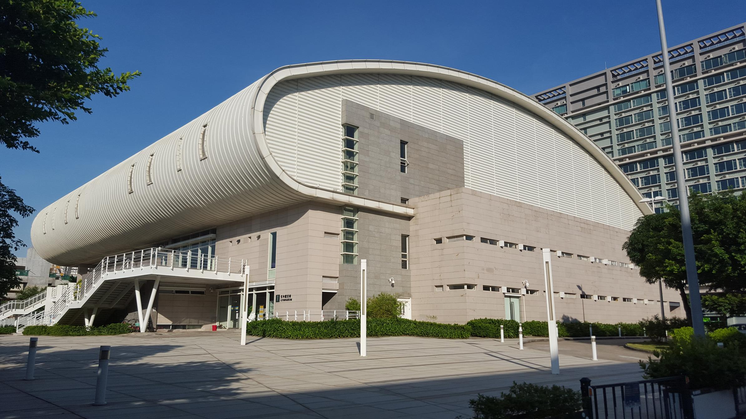 Macau University of Science and Technology Stadium